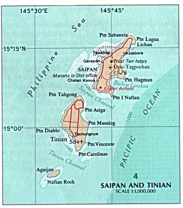 Saipan-Tinian